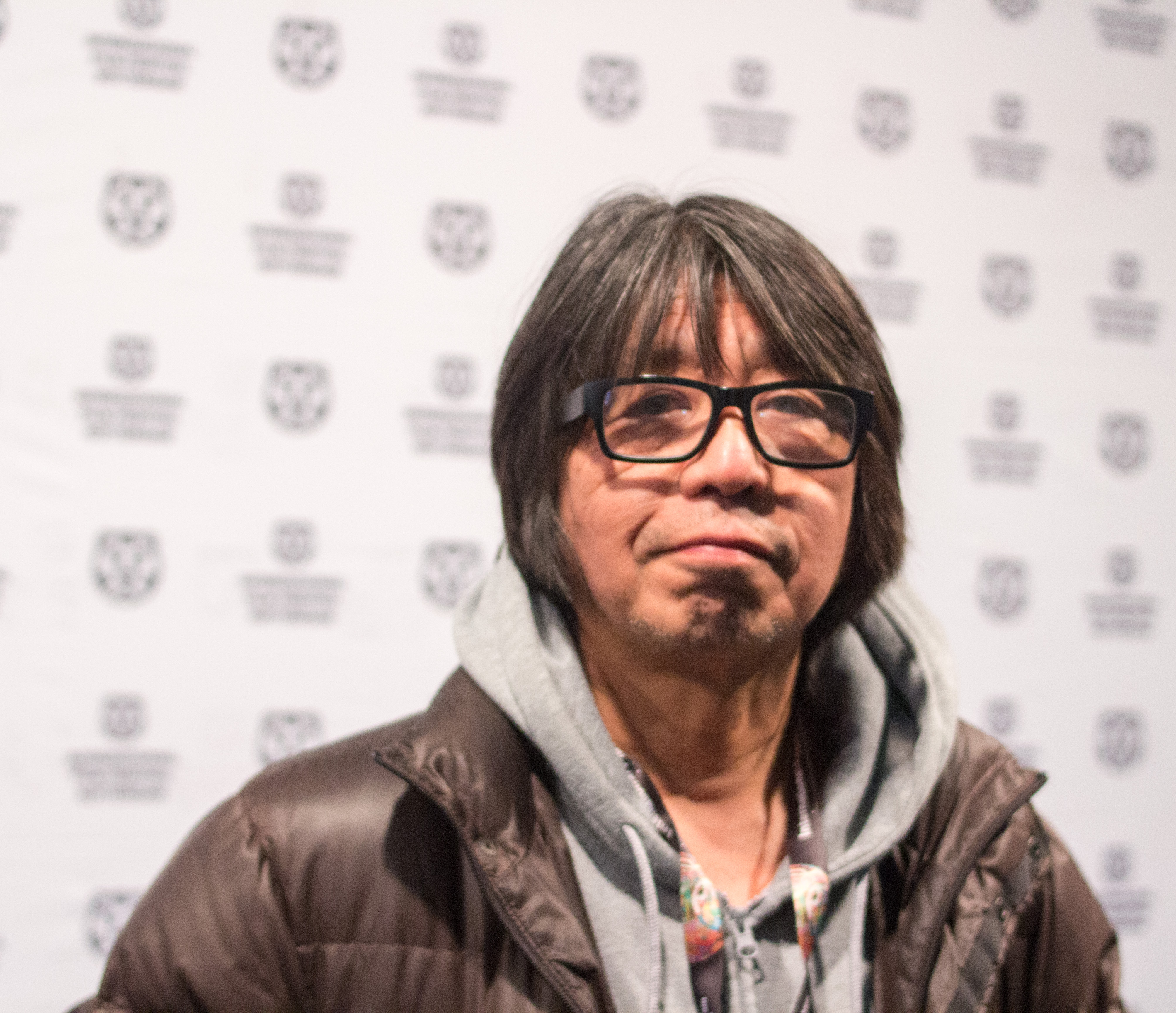 Premier of "Fake"